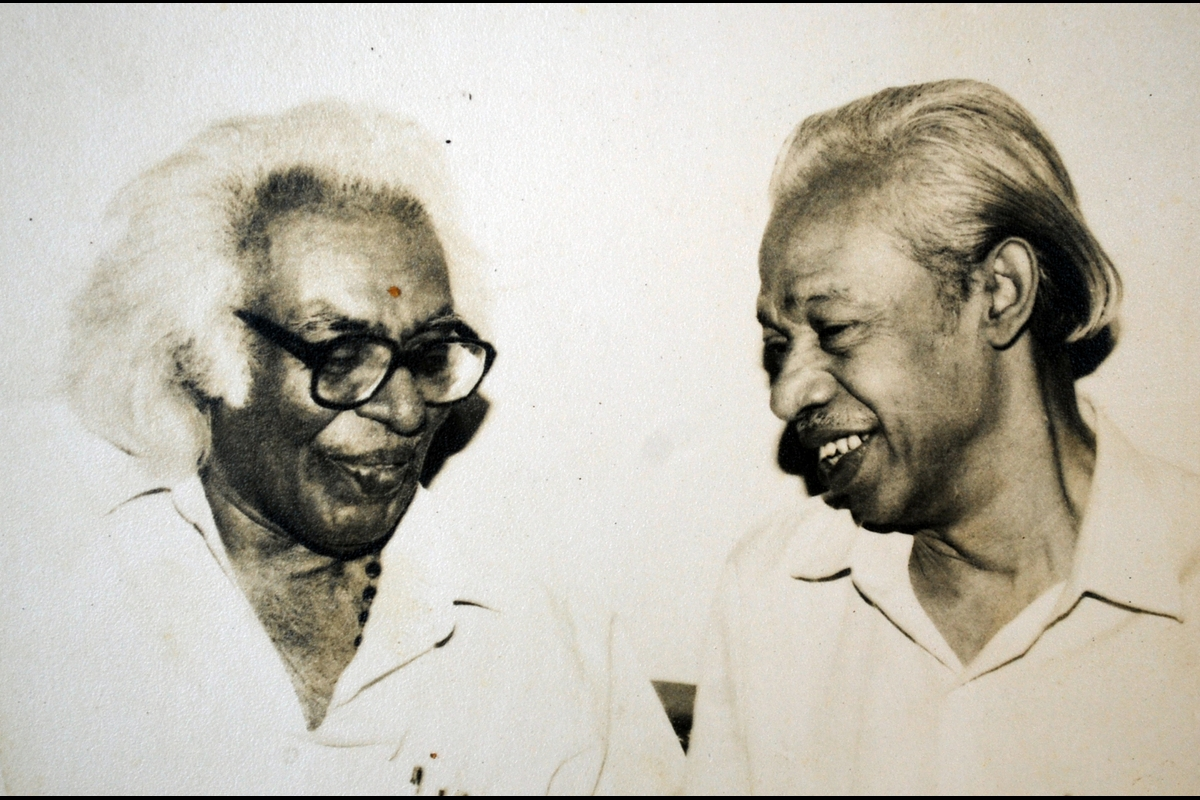 This media file is uploaded with India loves Wikipedia event. Kakkanadan WITH VAIKOM